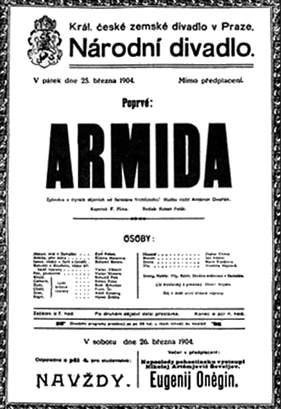 Antonín Dvořák - Armida - poster for the premiere at the National Theatre